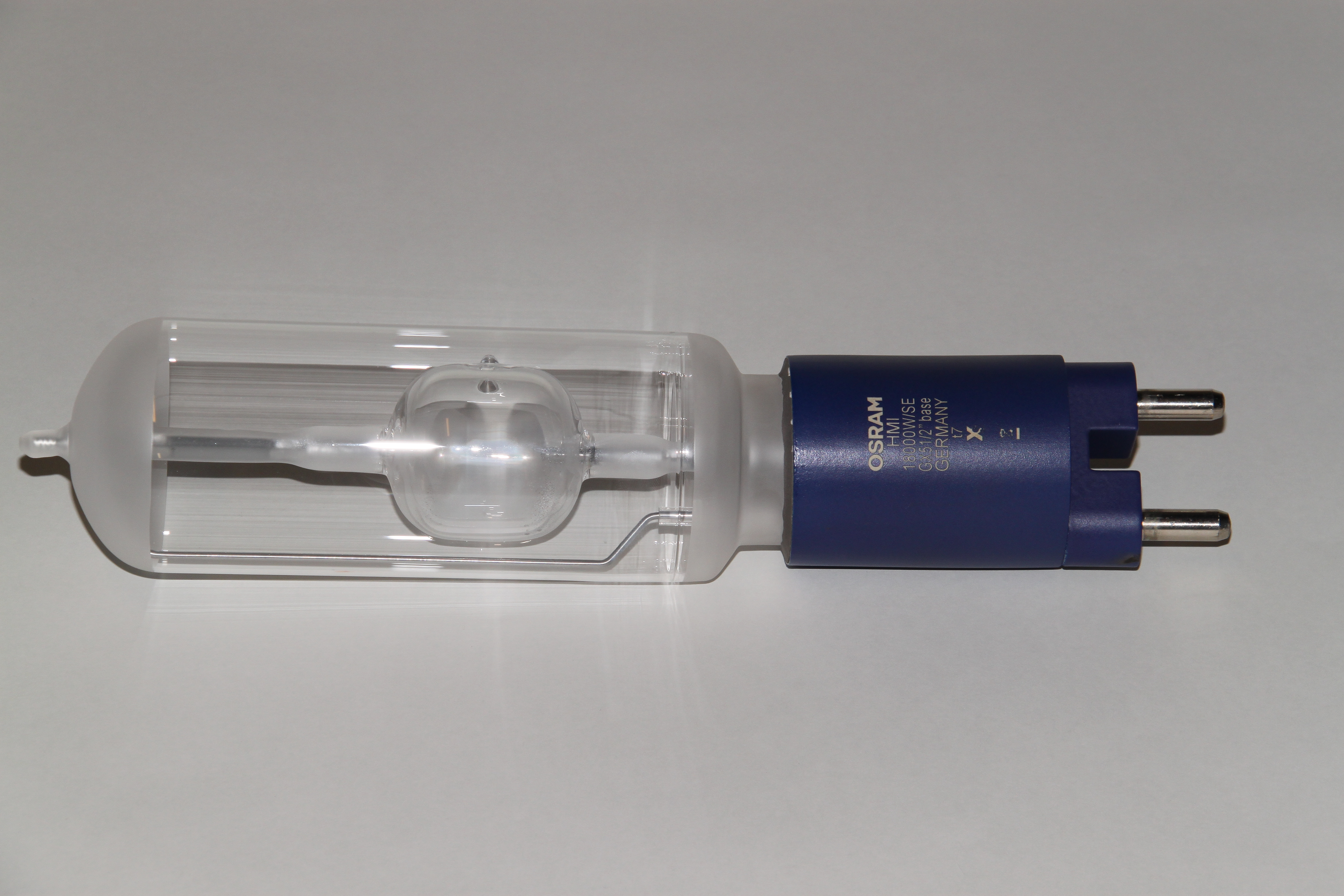 OSRAM HMI lamp 18 kW SE GX51/2 (Hydrargyrum medium-arc iodide lamp), single-ended.